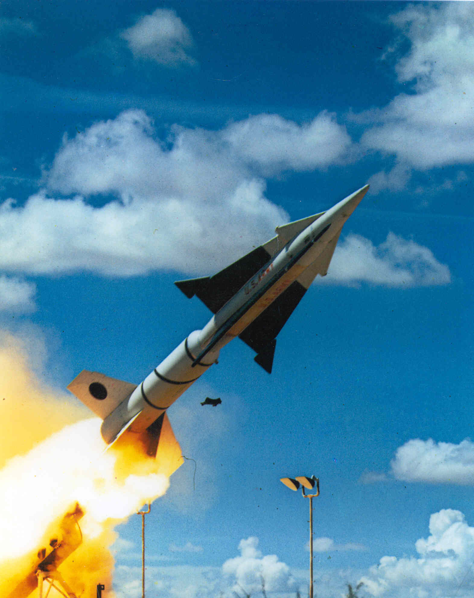 Test launch of the Nike Zeus A missile at White Sands. Cropped color version of the file Nike Zeus A